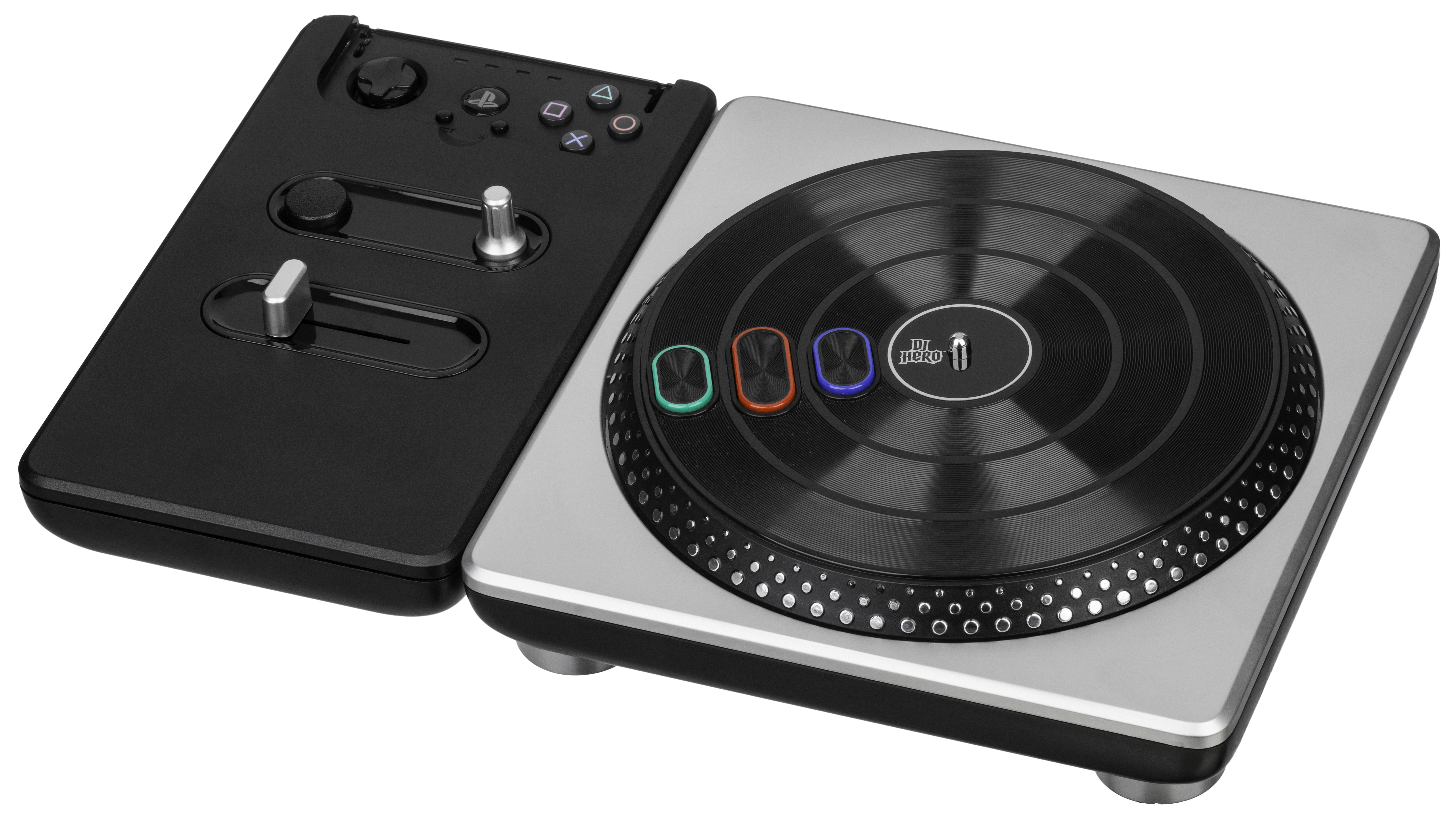 The DJ Hero turntable controller, made by Activision. DJ Hero is a game that features stylized, virtual DJ-ing similar to the gameplay of Rockband and Guitar Hero. The game requires a specialized controller that was packaged with the game. This is a controller for the PS3 version of the game, and the PS3 controls can be seen under the flap on the top left (this unit features a broken flap). Of note is that the black unit on the left with the slider controls is removable and its orientation can be reversed, making the controller ambidextrous.